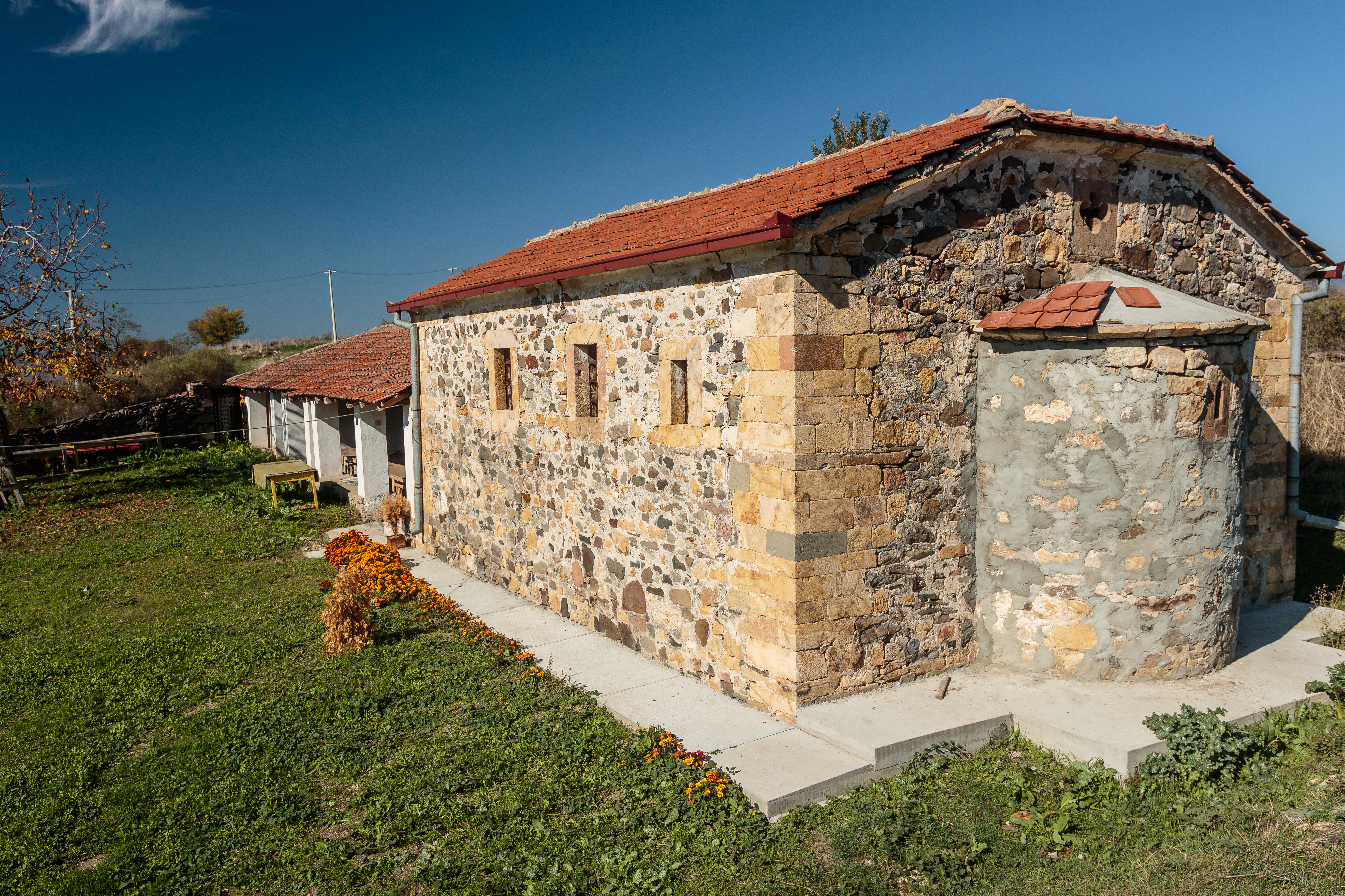 St. Elijah Church in the village of Buneš, Zletovo-Probištip Region, Macedonia